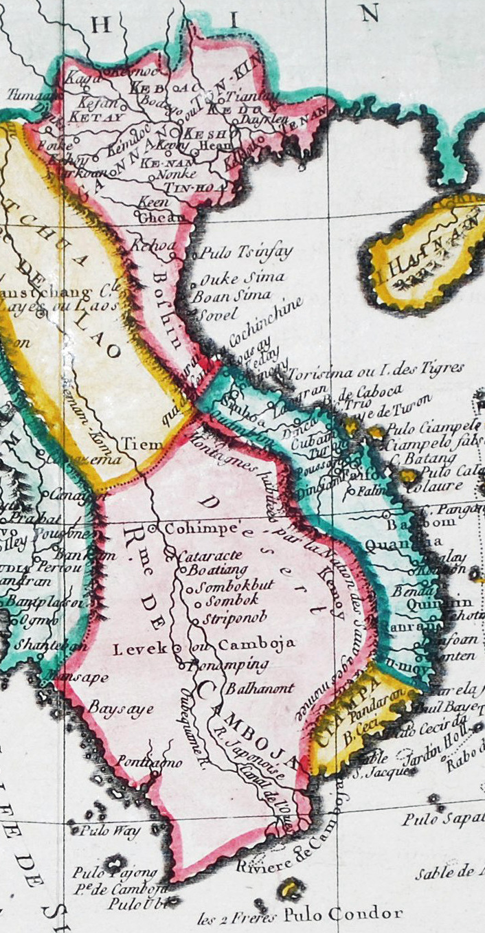 Map of Indochina circa 1770s, published in Paris, France in 1774